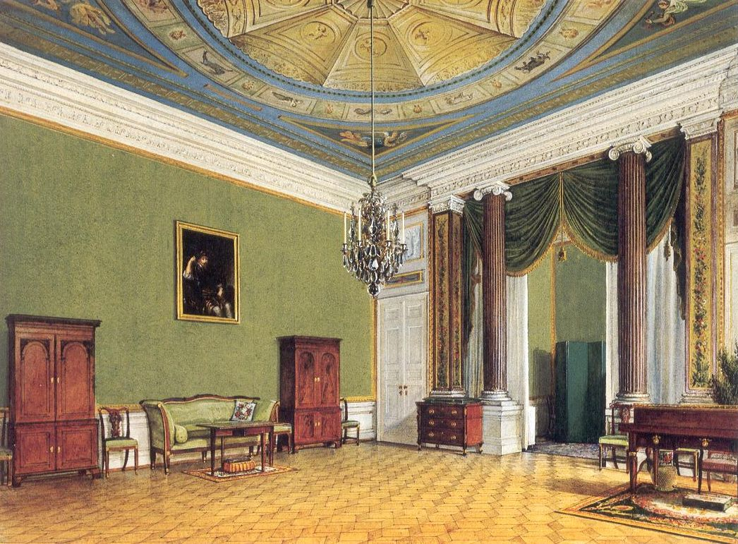 Former study-cum-bedroom of Frederick II. of Prussia after the redesign in the classical style. Sanssouci, Potsdam, Germany